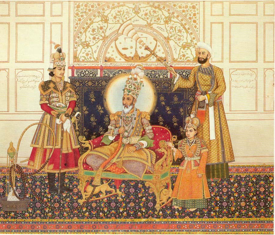 Ghulam 'Ali Khan (active c. 1820-c. 1840) The Emperor Bahadur Shah II Enthroned India, Delhi, Mughal, dated 1838 (A.H. 1254) Opaque watercolor and gold on paper The Last Mughal Emperor, Bahadur Shah II, with Two Sons; The Heir Apparent, Fakhrud-din Mirza at His Right, and Mirza Farkhanda. Mughal, North India, Delhi, dated in the month of Rabi I, A.H. 1254 (May-June 1838): 32 x 38 cm. Private collection. "On this final imperial Mughal portrait are inscribed some of his honorifics: "the Shadow of God," "Exalted King of Kings," "Refuge of Islam," and "Increasor of the Splendour of the Community of the Paraclete." The lions aupporting the throne are scrawny and feeble and the Emperor's halo has turned from the usual gold to hauntingly anemic pale blues." (p. 185)